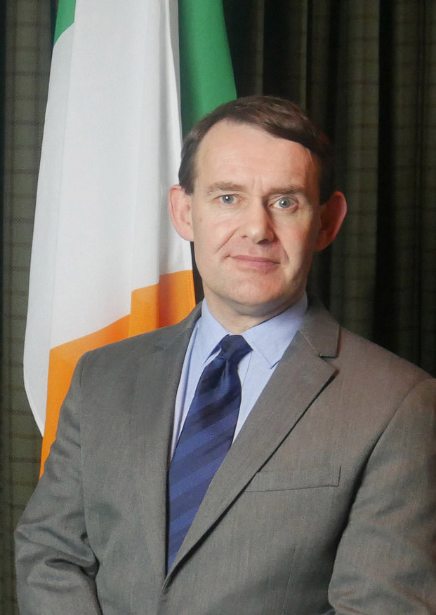 Cropped image of National Party leader Justin Barrett attending the party's 2017 Ard Fheis in County Clare